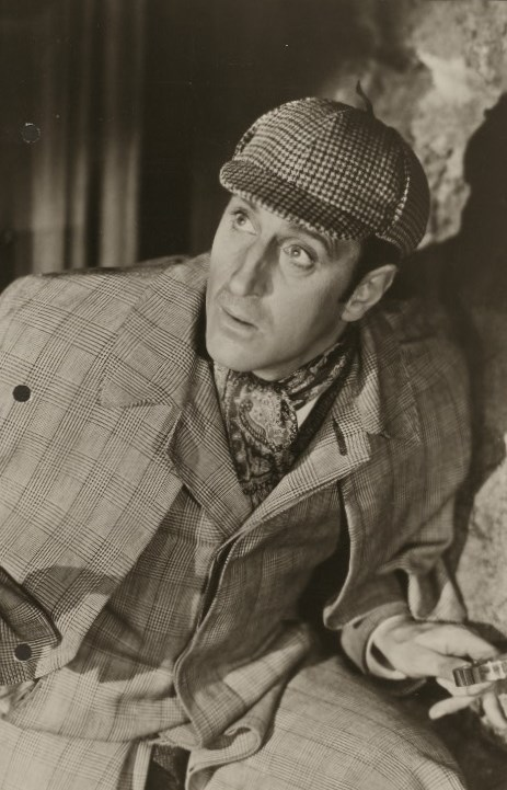 Photograph of Basil Rathbone as Sherlock Holmes. Courtesy of the New York Public Library Digital Collection.